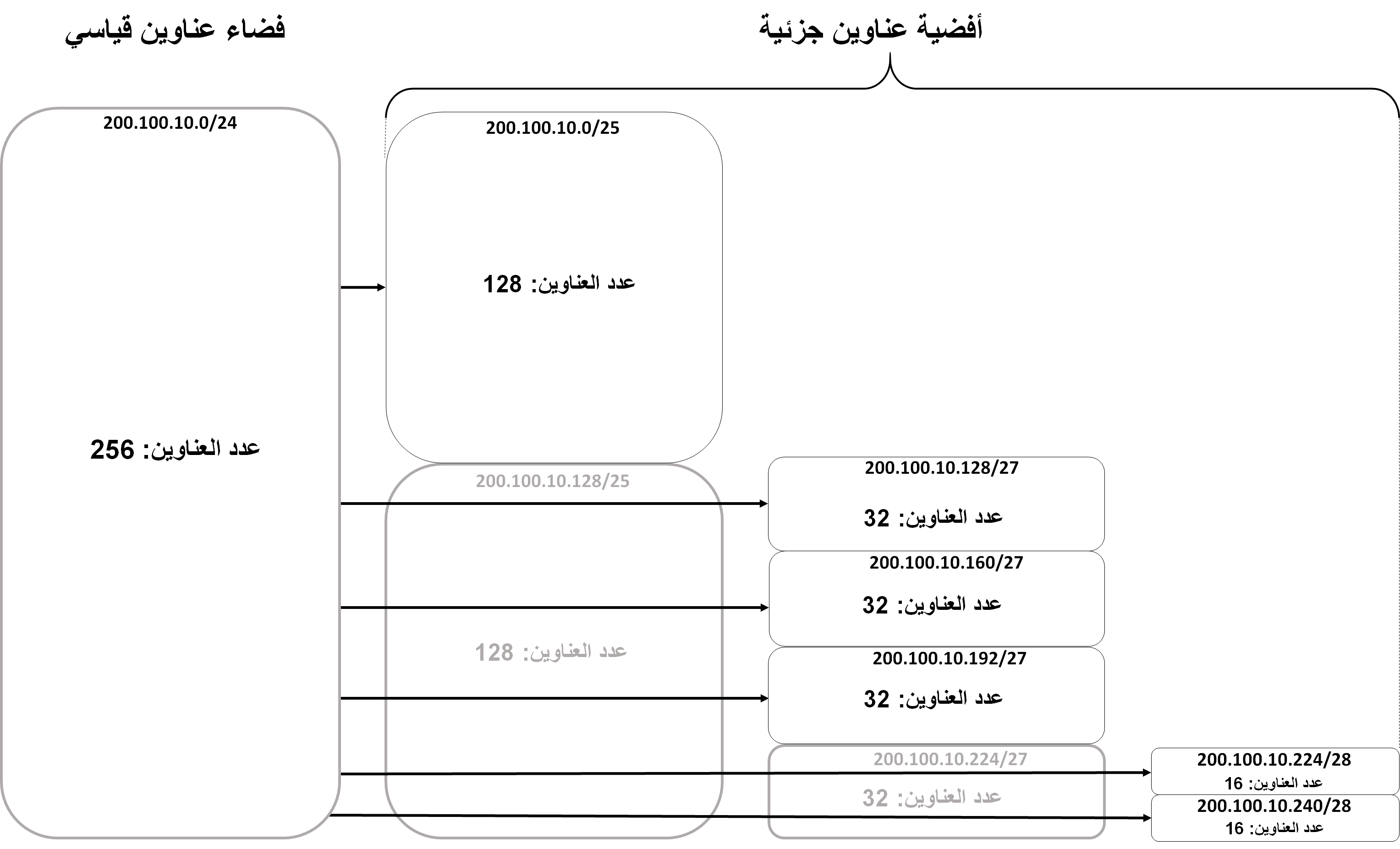 An example of multiple subnetting for a classful address space, class (C): 200.100.10.0/24, the goal is to generate variable length subnet mask (VLSM).